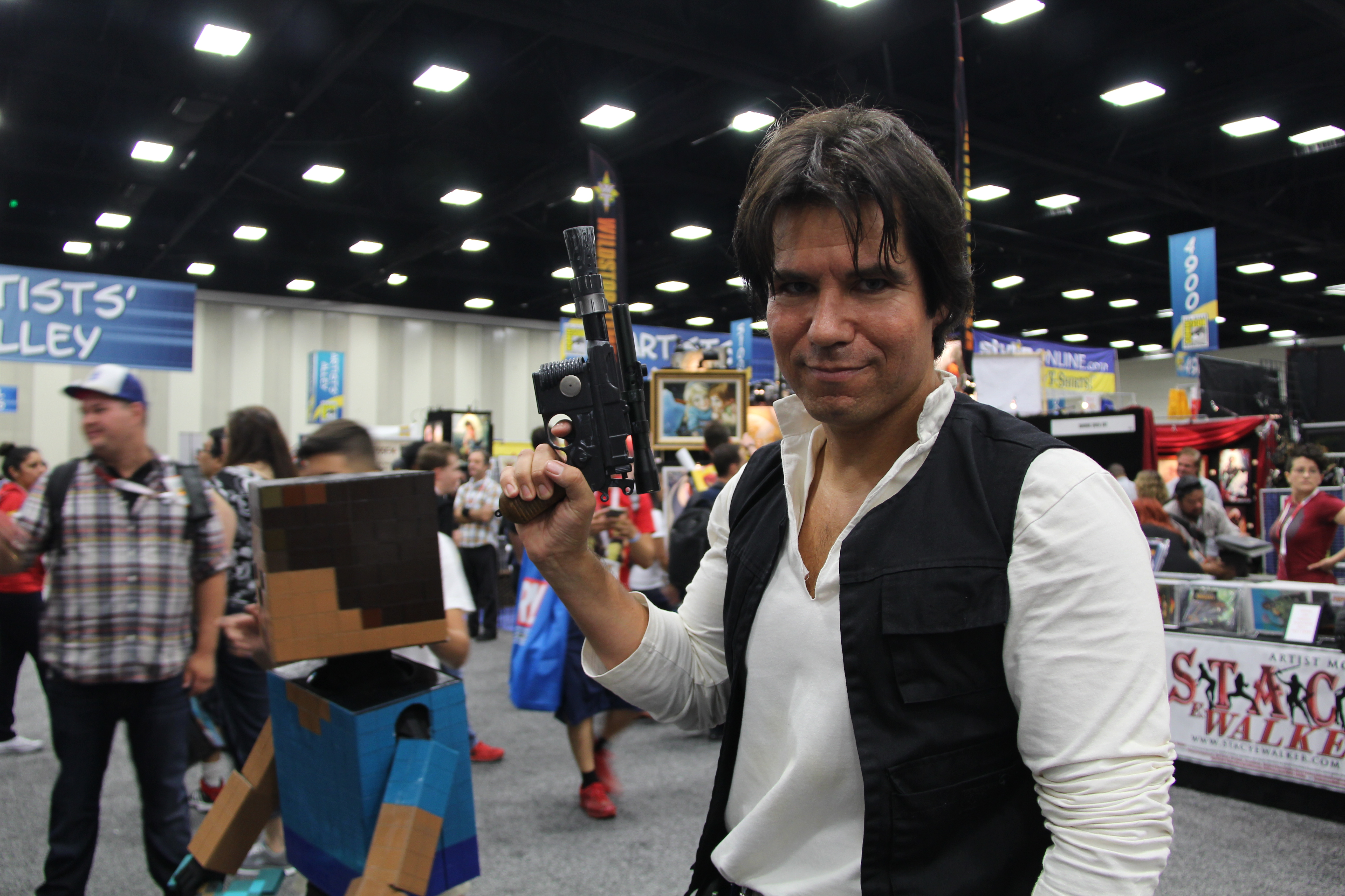 Cosplay at San Diego Comic Con 2015.